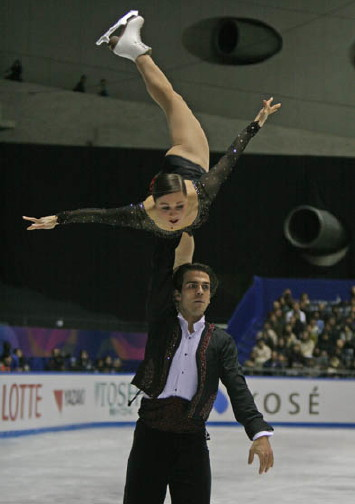 2008 NHK Trophy - Jessica Dubé and Bryce Davison